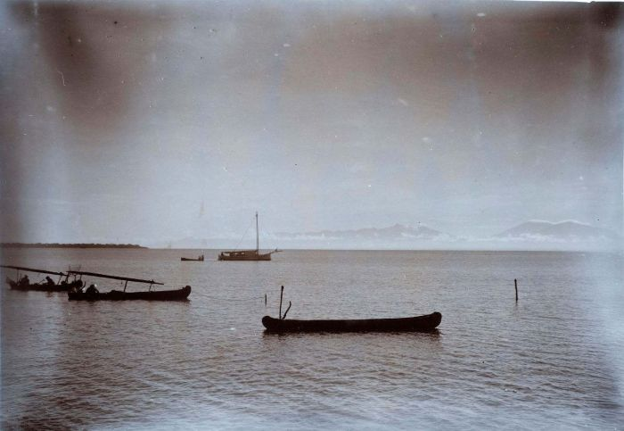 Proas and the 'Sri Koedjang' motor and sailing vessel in the bay at Citeureup